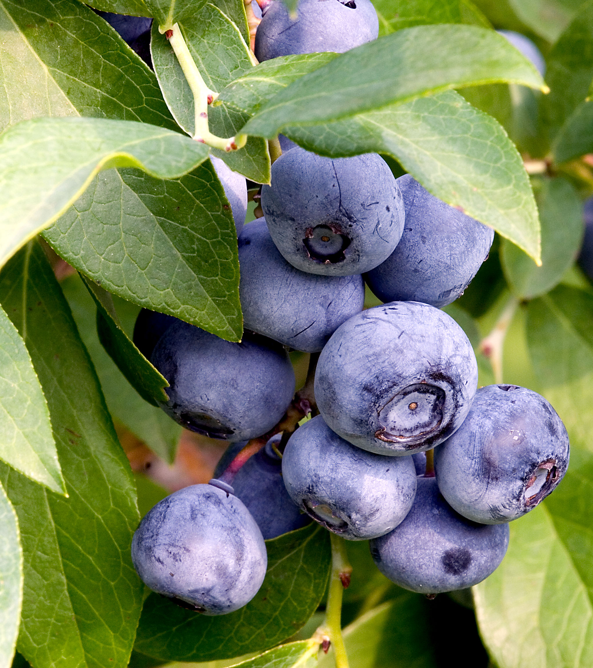 Blueberries.